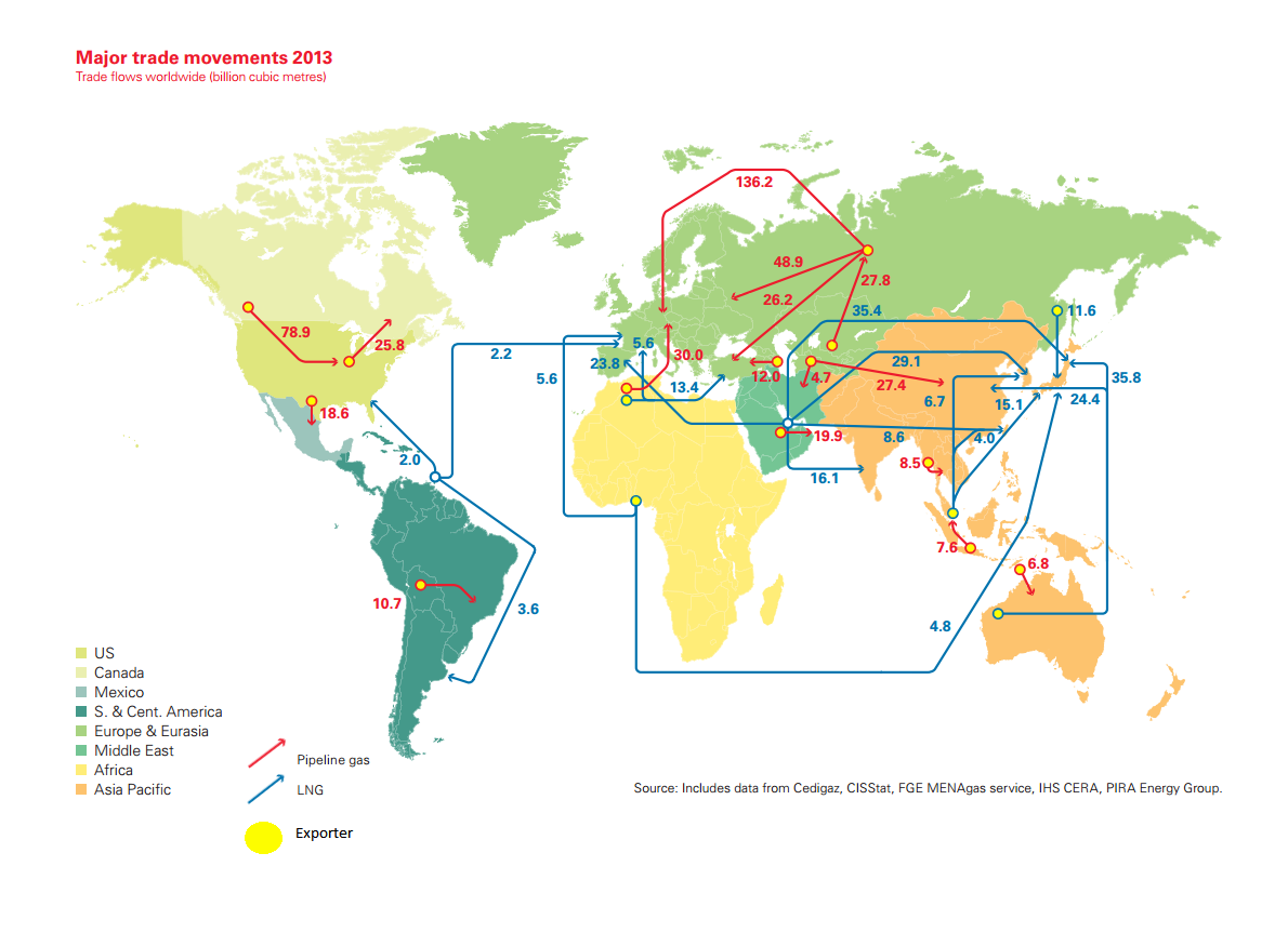 see the picture description for sources